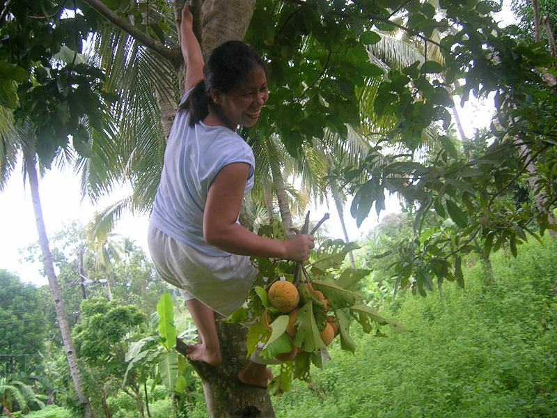 Santol Sandoricum koetjape. The ripe fruits are harvested by climbing the tree and plucking by hand, alternatively a long stick with a forked end may be used to twist the fruits off. Zamboanga del Sur, Mindanao, Philippines. Photo by Dioscora.